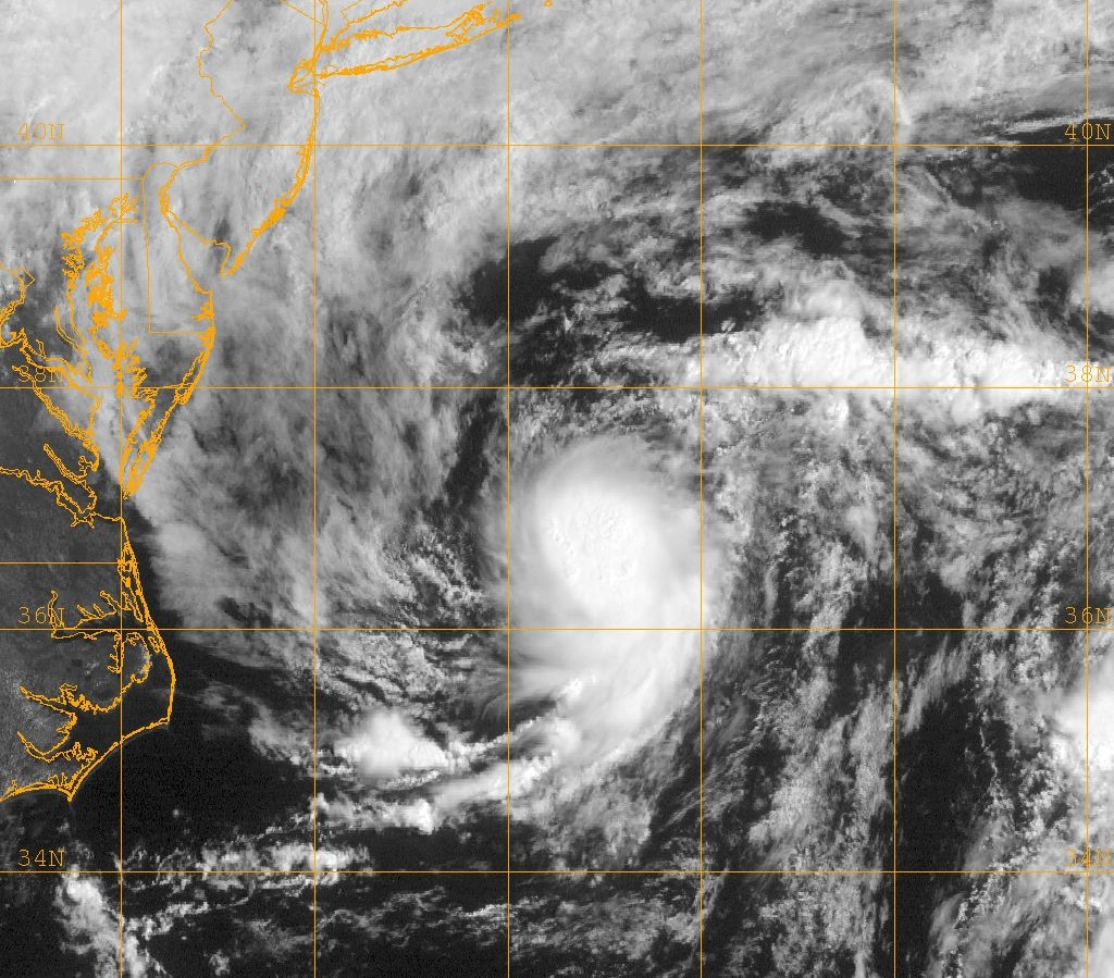 Tropical Depression One upon being declared